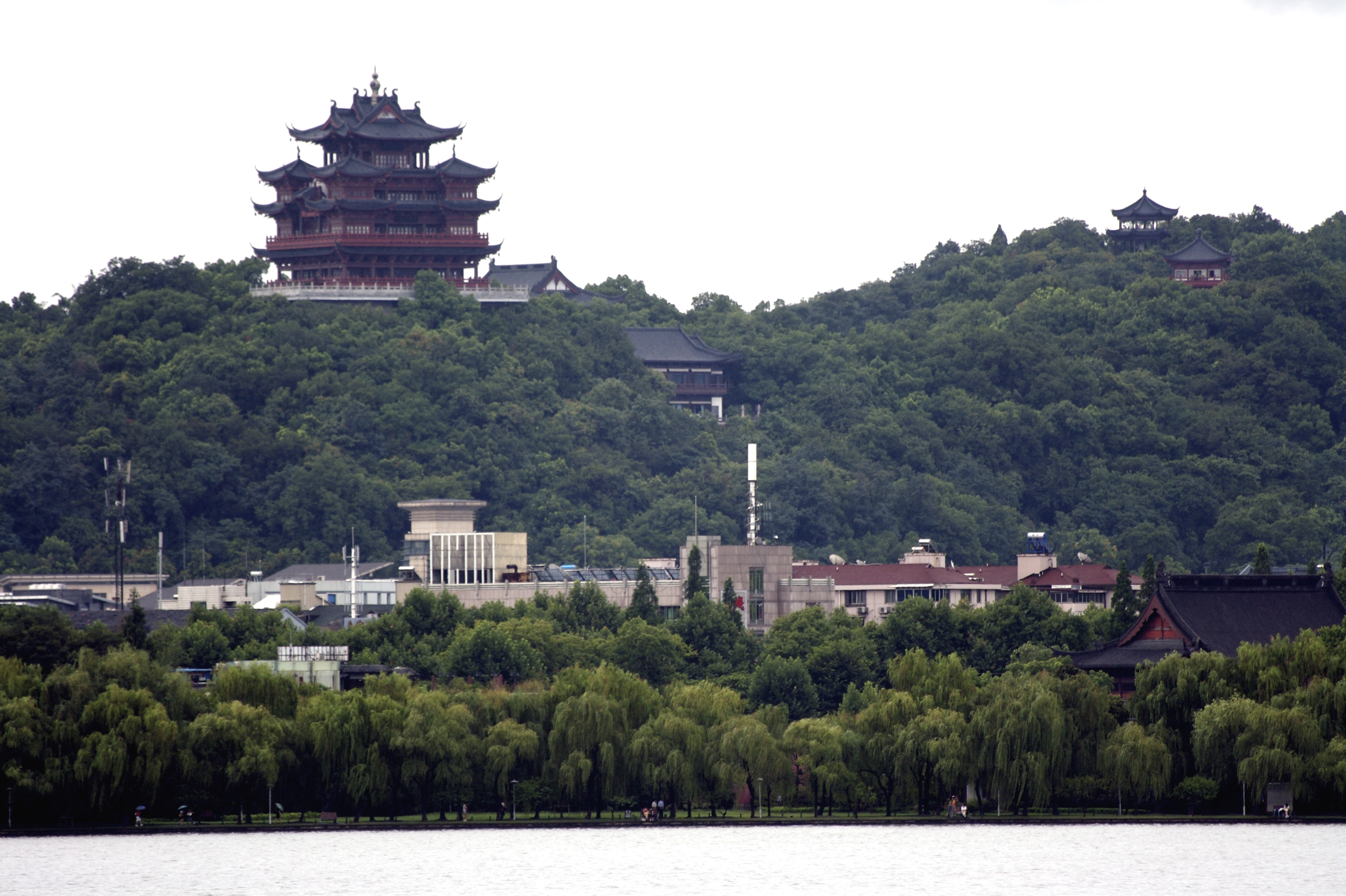 A temple in Hangzhou, China.